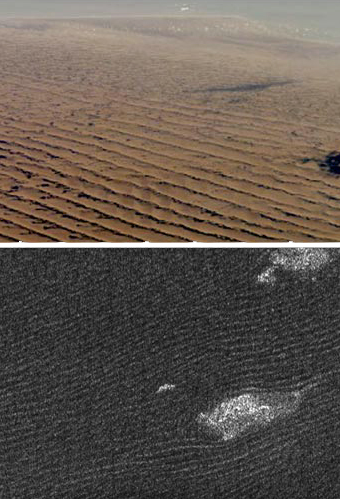 Cassini radar sees sand dunes in Belet (a dark equatorial albedo feature) on Saturn's giant moon Titan (lower photo) that are sculpted like Namibian sand dunes on Earth (upper photo). The bright features in the lower radar photo are not clouds but topographic features among the dunes.